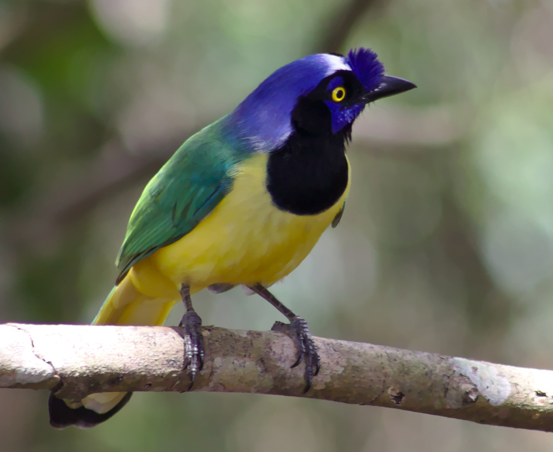 Inca Jay, Querrequerre (Cyanocorax yncas)